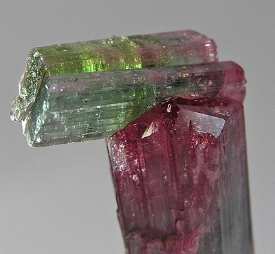 Elbaite Locality: Santa Rosa mine, Itambacuri, Doce valley, Minas Gerais, Southeast Region, Brazil (Locality at ) Size: 8.2 x 2.4 x 1.4 cm. This would be a very fine and large gem tourmaline crystal even without the distinction of having another one intergrown right at the termination! The crystal weighs 34 grams. It is mostly green, but has strips of pink along two "corners" (it is roughly tri-sided), and at one termination. At this pink termination, there is a smaller crystal growing - the termination of the big crystal grew right around it - and miraculously, BOTH terminations of the big crystal and one on the small crystal are intact! So they managed to get this specimen out with three of its 4 terminations. What a cool piece!